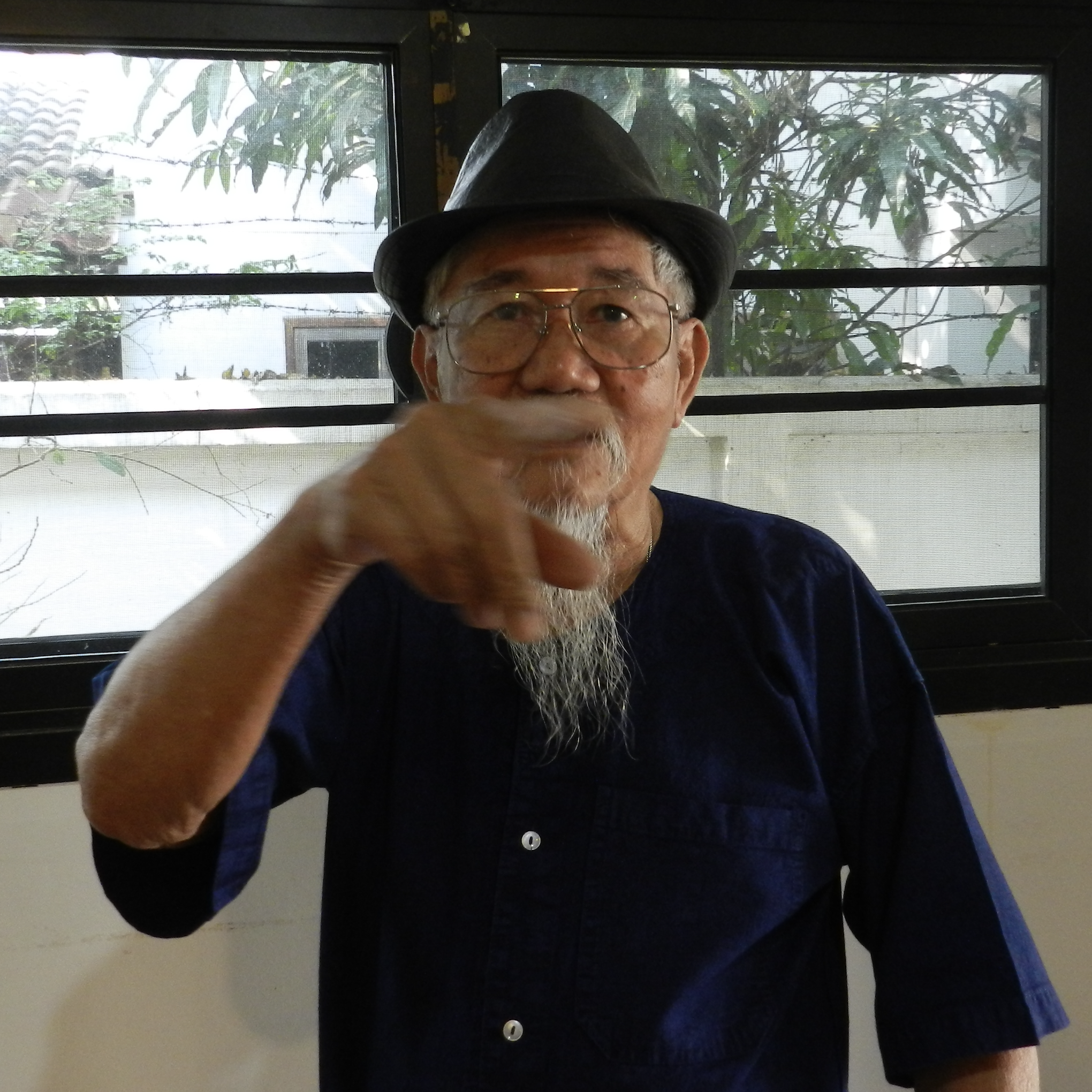 This is Thai National Artist Tawee Rujaneekorn discussing his artworks in 2017.